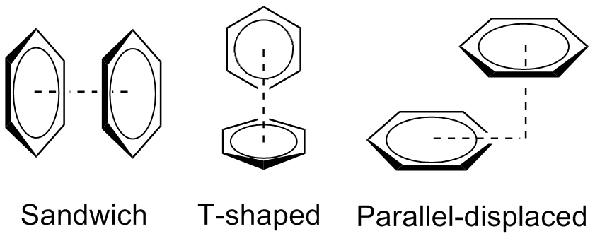 Benzene dimers adopt 3 major conformations: sandwich, T-shaped, and parallel displaced.